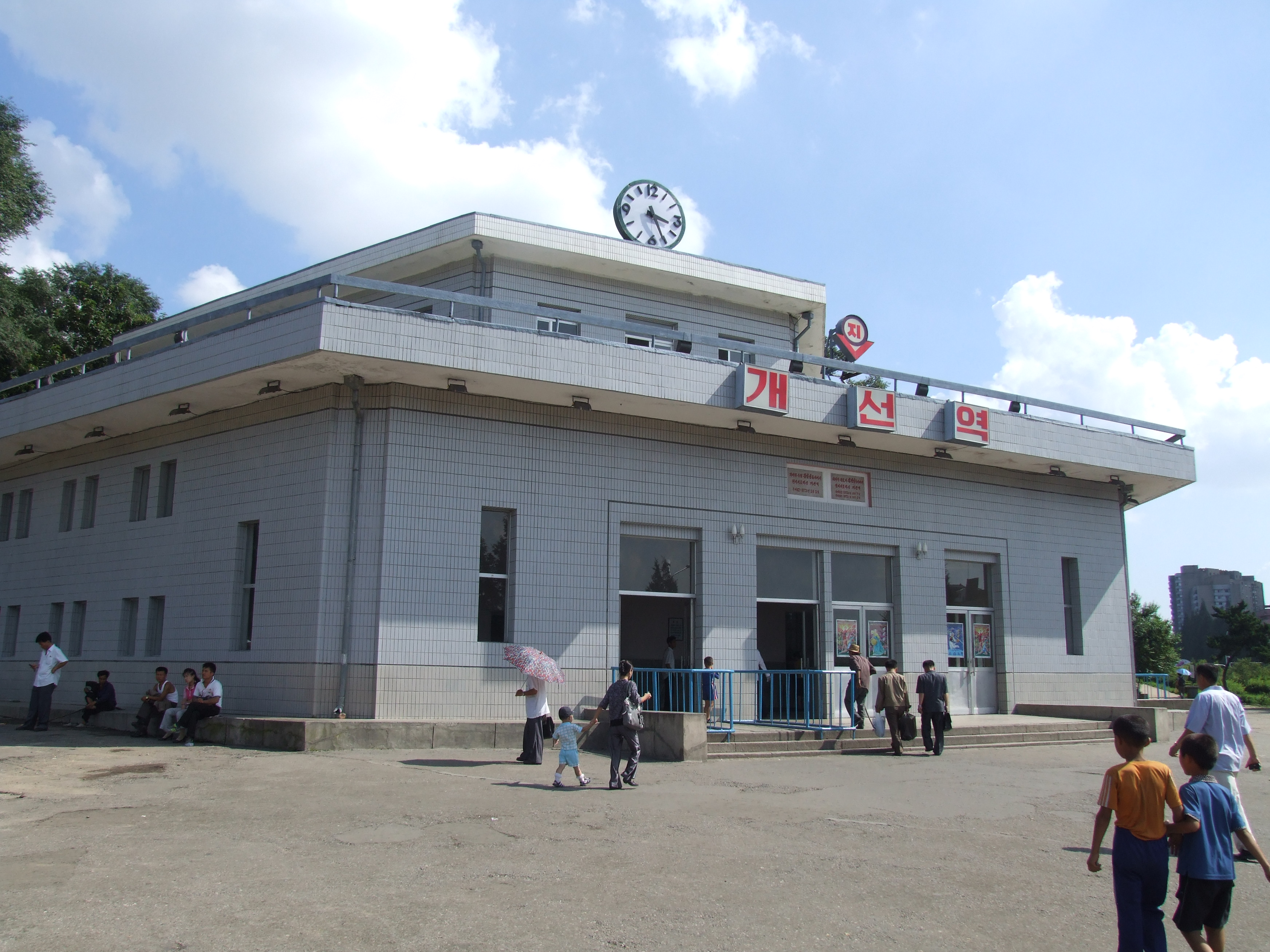 Kaeson station (Pyongyang Metro)